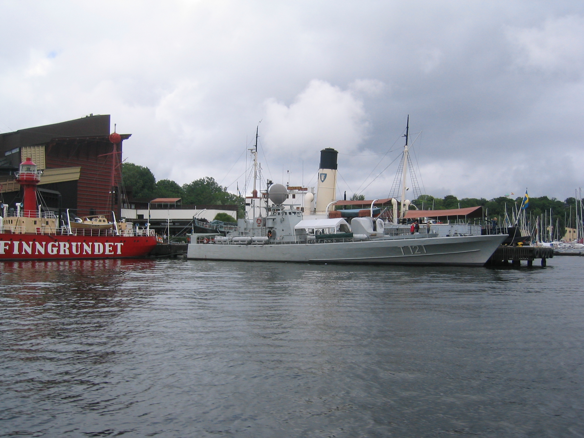 Photo by Jll. July 2005